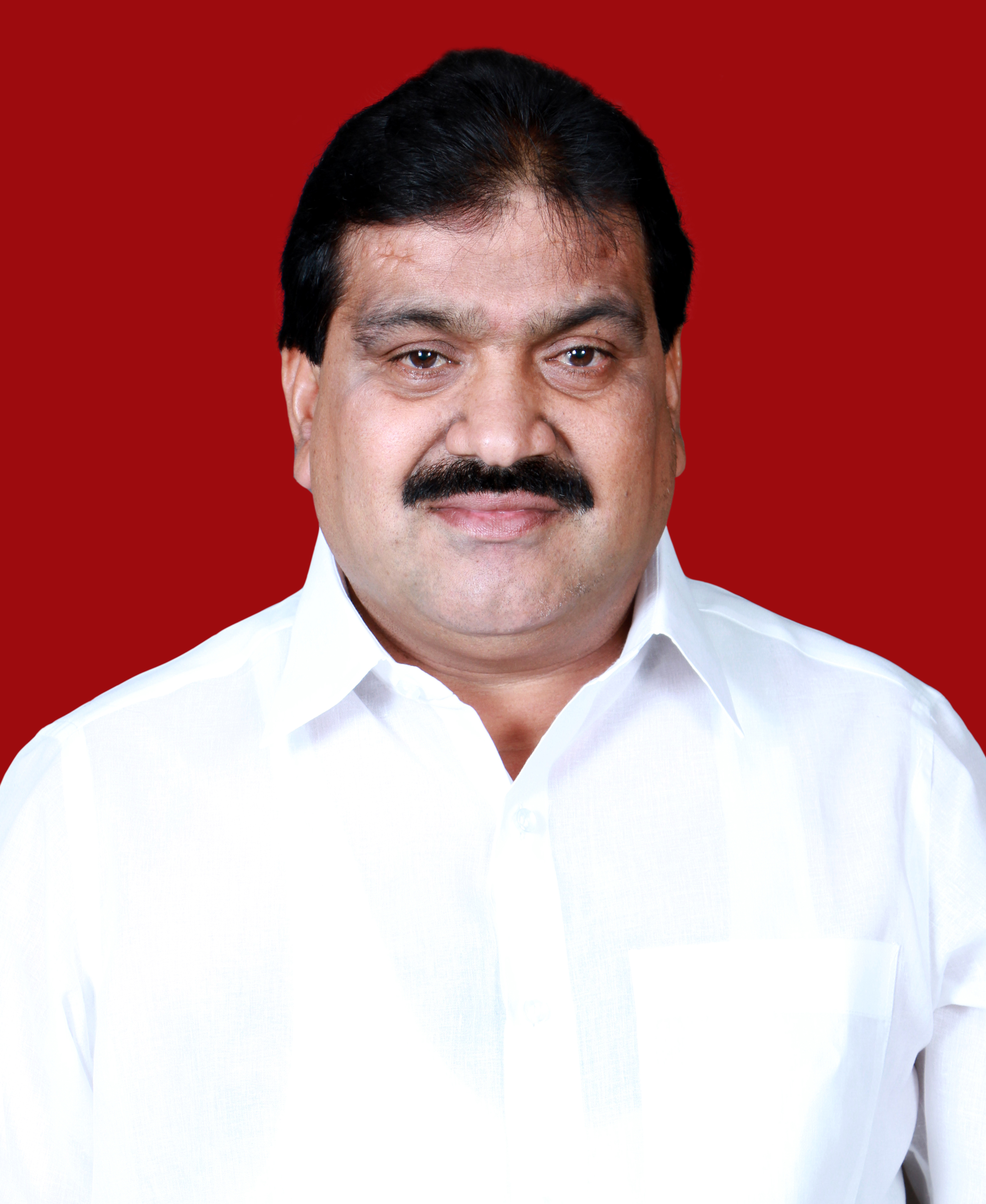 Dr. P. Mahender Reddy, Minister for Transport, Telangana